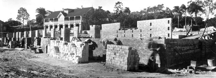 Brisbane Central (Leichhardt St) State School, New Infants School. (Rogers Street, Spring Hill. Alternative names: Leichhardt Street (practising) School; Leichhardt Street State School for Boys, Girls, Infants.)